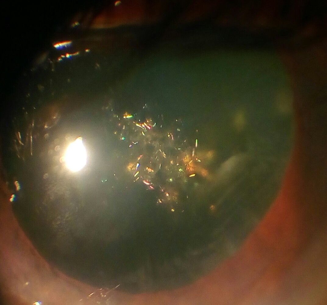 Christmas tree cataract (Diffuse illumination)